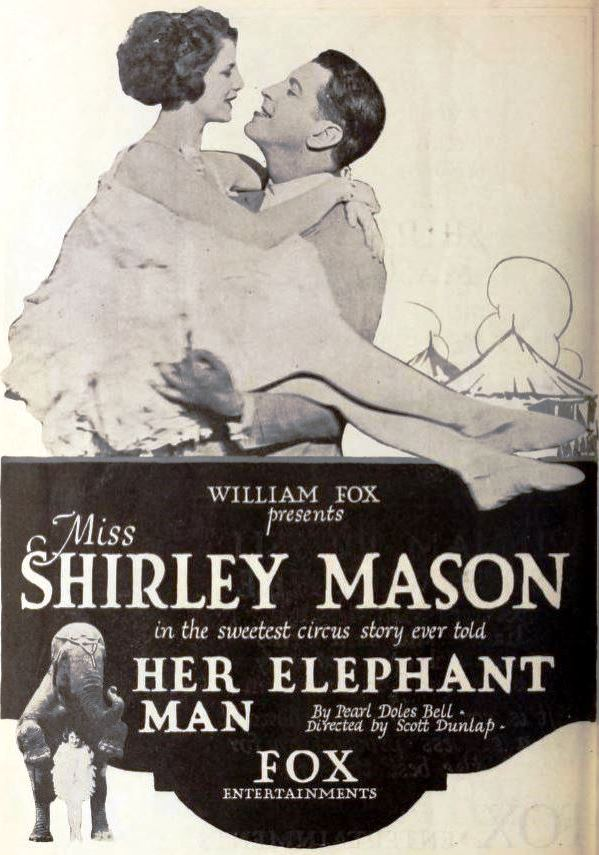 Advertisement for the American circus drama film Her Elephant Man (1920) with Alan Roscoe and Shirley Mason, on page 10 of the February 14, 1920 Exhibitors Herald.